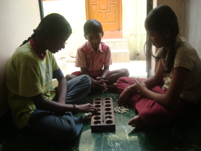 game with a tablet of 14 pits